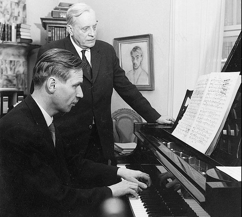 The Finnish musicologist Erik Tawaststjerna (1916–1996) with his friend, the mathematician Rolf Nevanlinna (1895–1980).